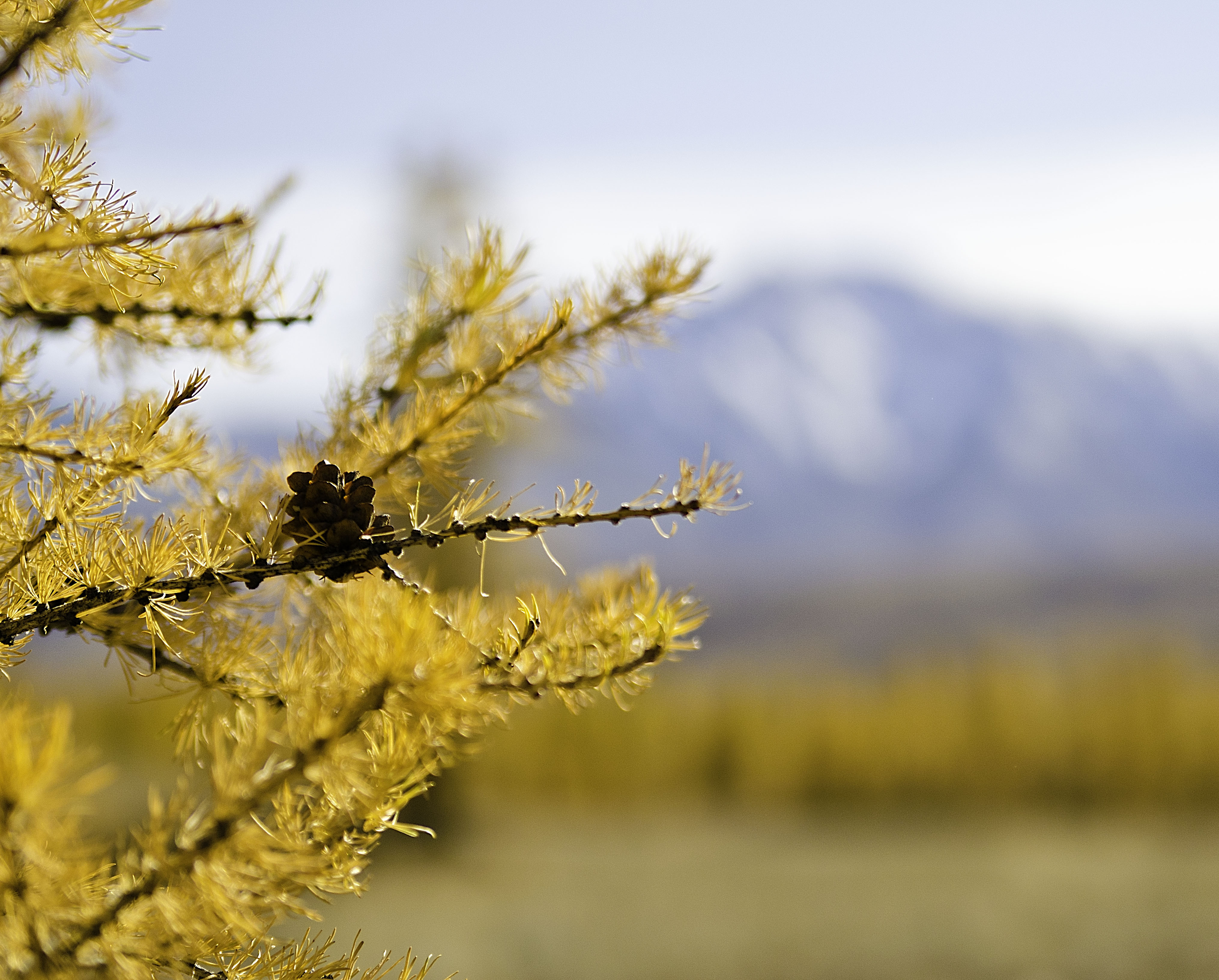 Larix sibirica with golden autumn foliage